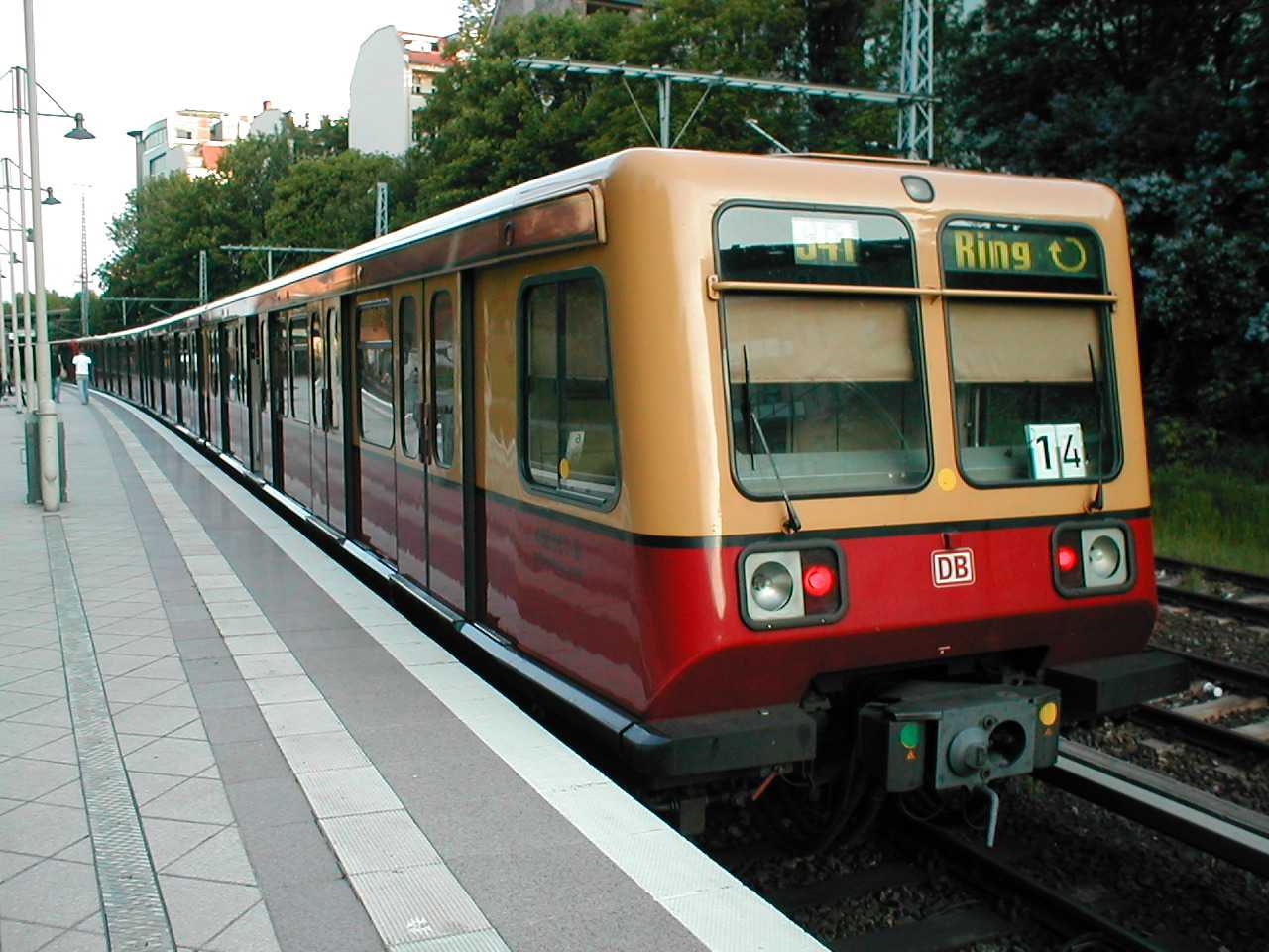 type 485 of the Berlin S-Bahn at Prenzlauer Allee station